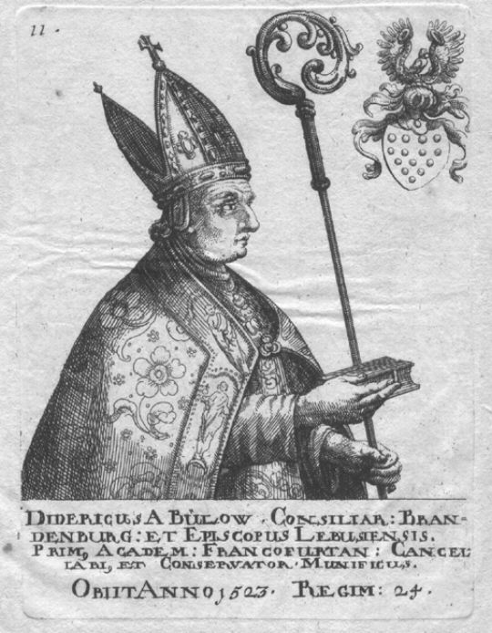 Portrait of Dietrich von Bülow, bishop of Lebus, engraving; picture: 104x83 mm; plate: 130x96 mm In: Seidel, Martin Friedrich: Icones et elogia virorum aliquot praestantium. - o. J. - [plate 11]